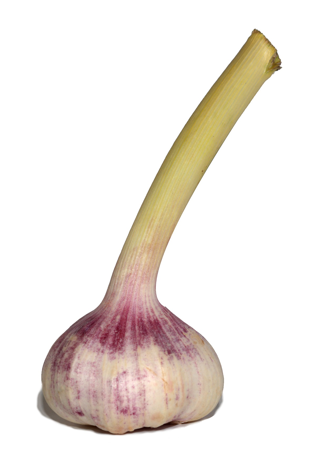 Fresh garlic